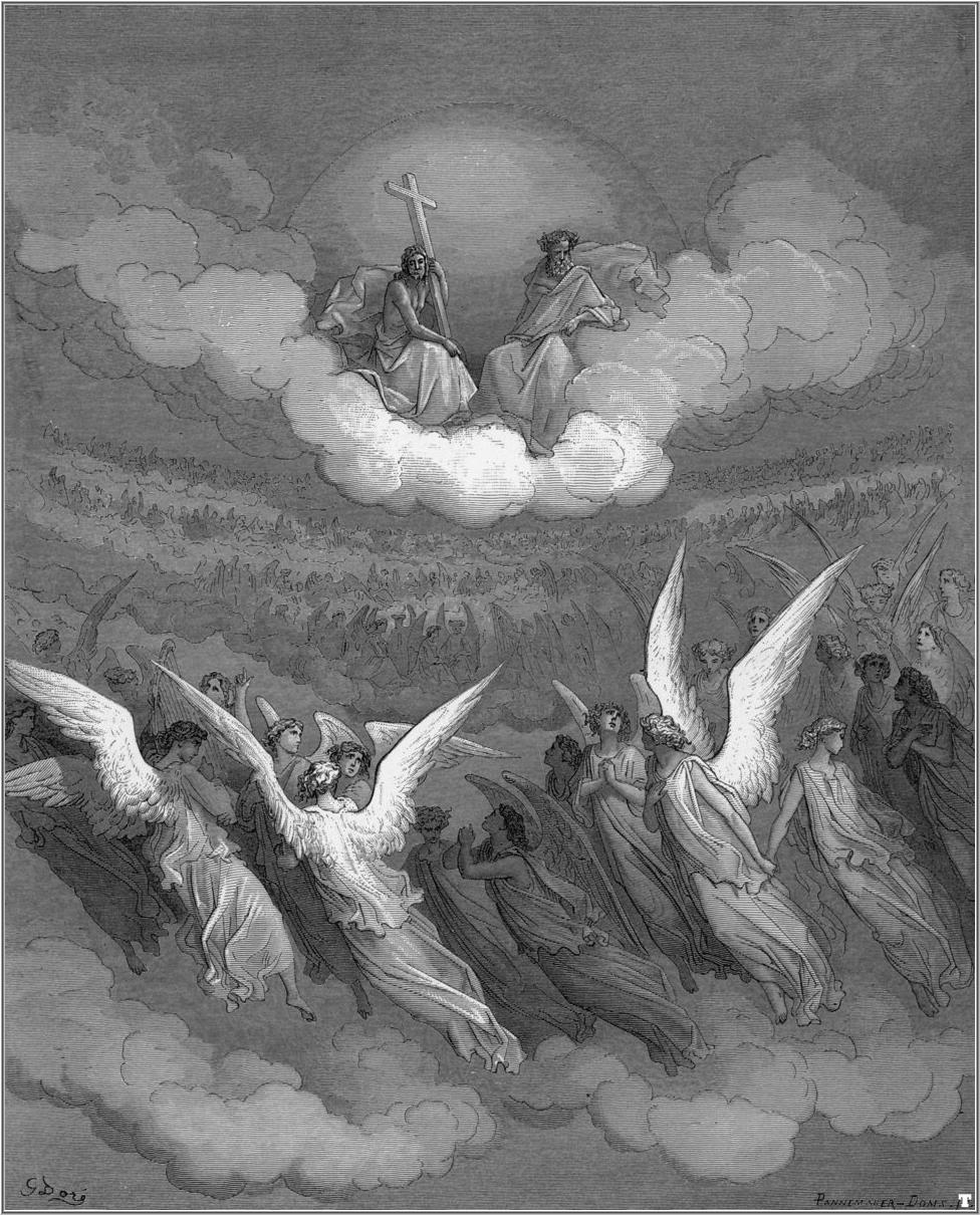 Illustration for John Milton’s “Paradise Lost“